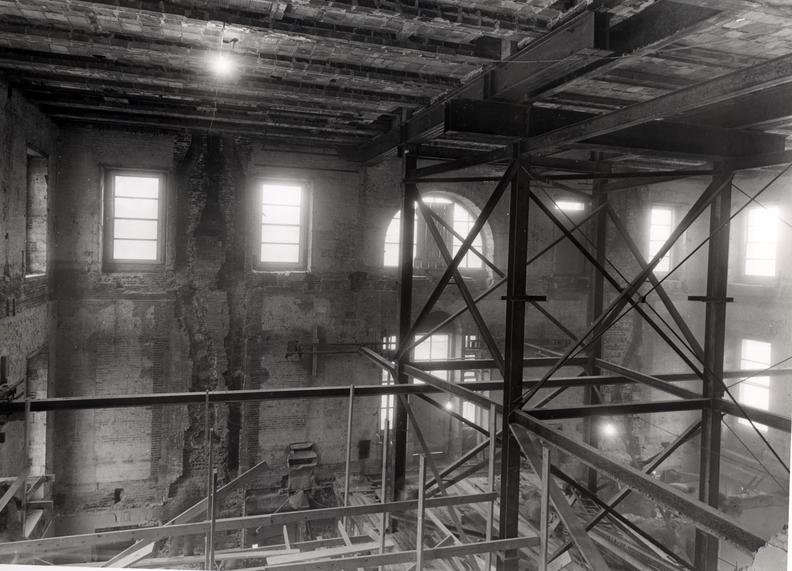 View from Bedroom #13 to east wall during the renovation of the White House. The brick walls, joists, and ceilings have been taken out in this area except in basement.